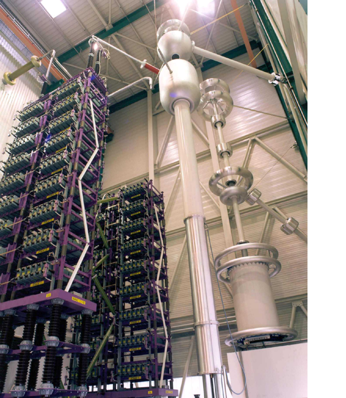 synthetic test laboratory, of CERDA lab in Villeurbanne, France